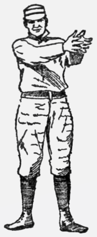 An illustration of baseball player Joe Burke from the May 26, 1893, edition of The Nashville American